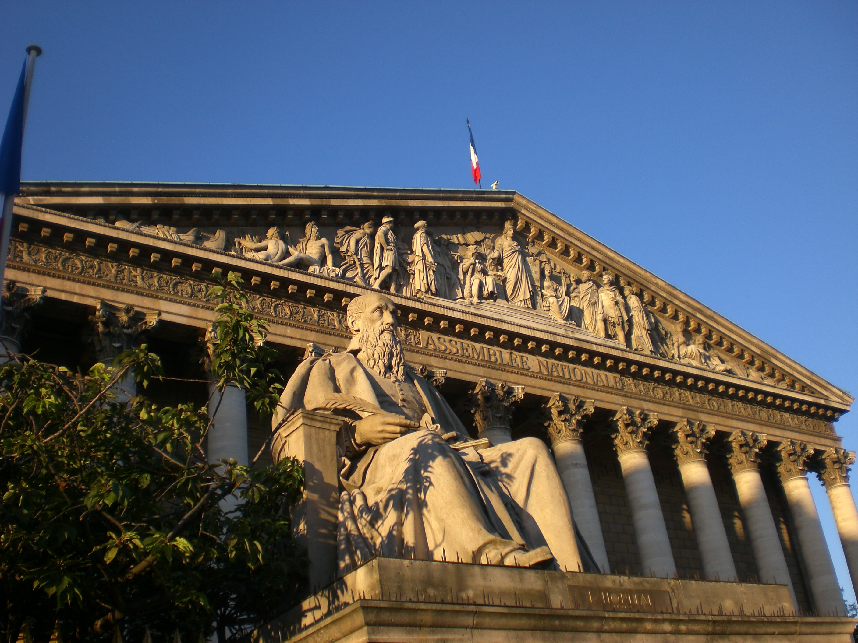 Paris, Facade of Palais Bourbon, 1803-07 .